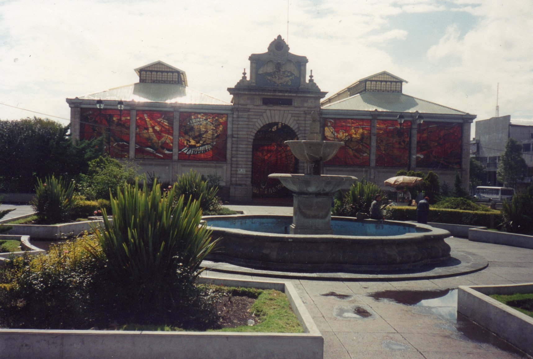 View of the Cosmovitral, Toluca, Mexico